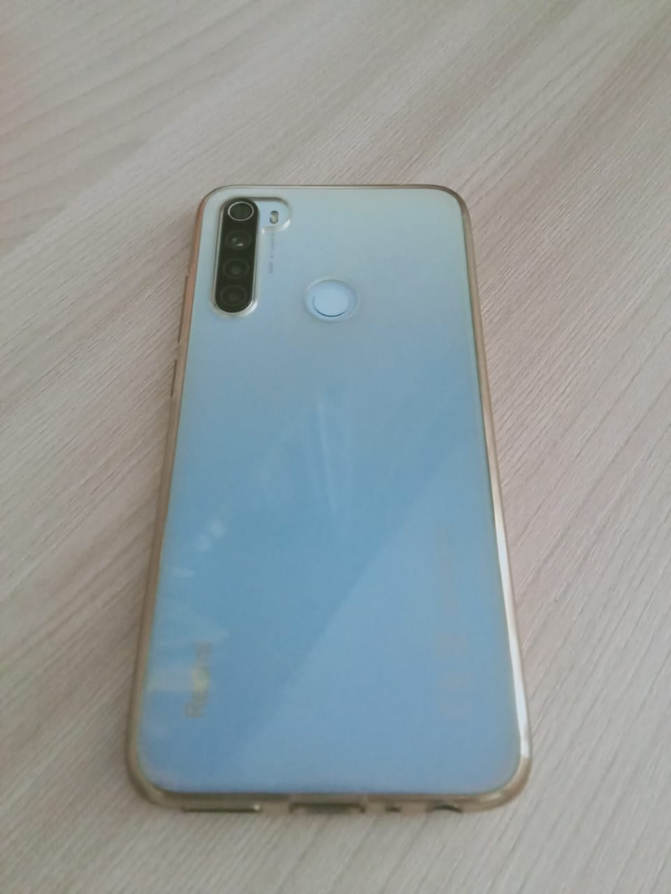 It is a back panel of Redmi Note 8